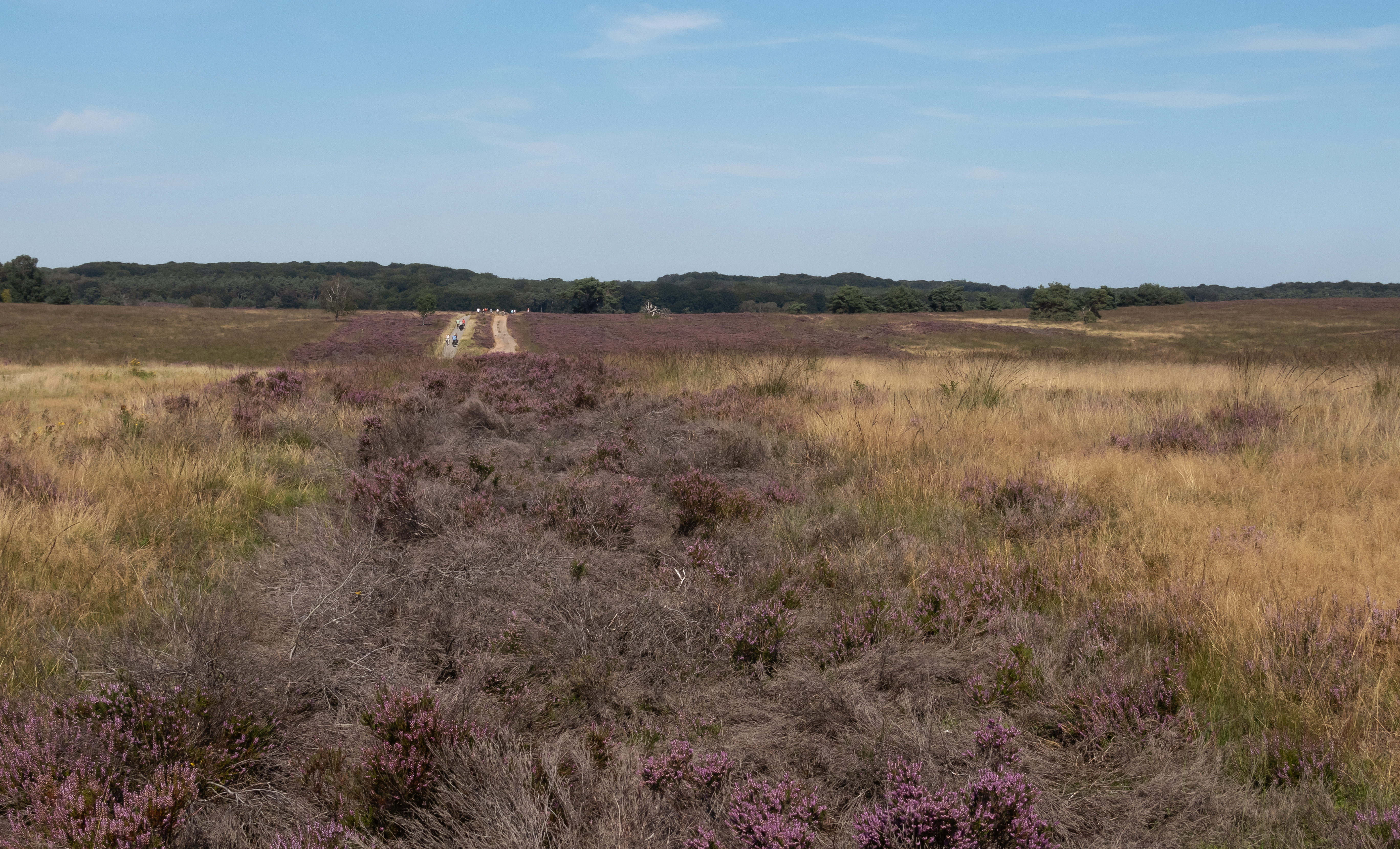 near Hoog Buurlo, heath at the Turfbergweg